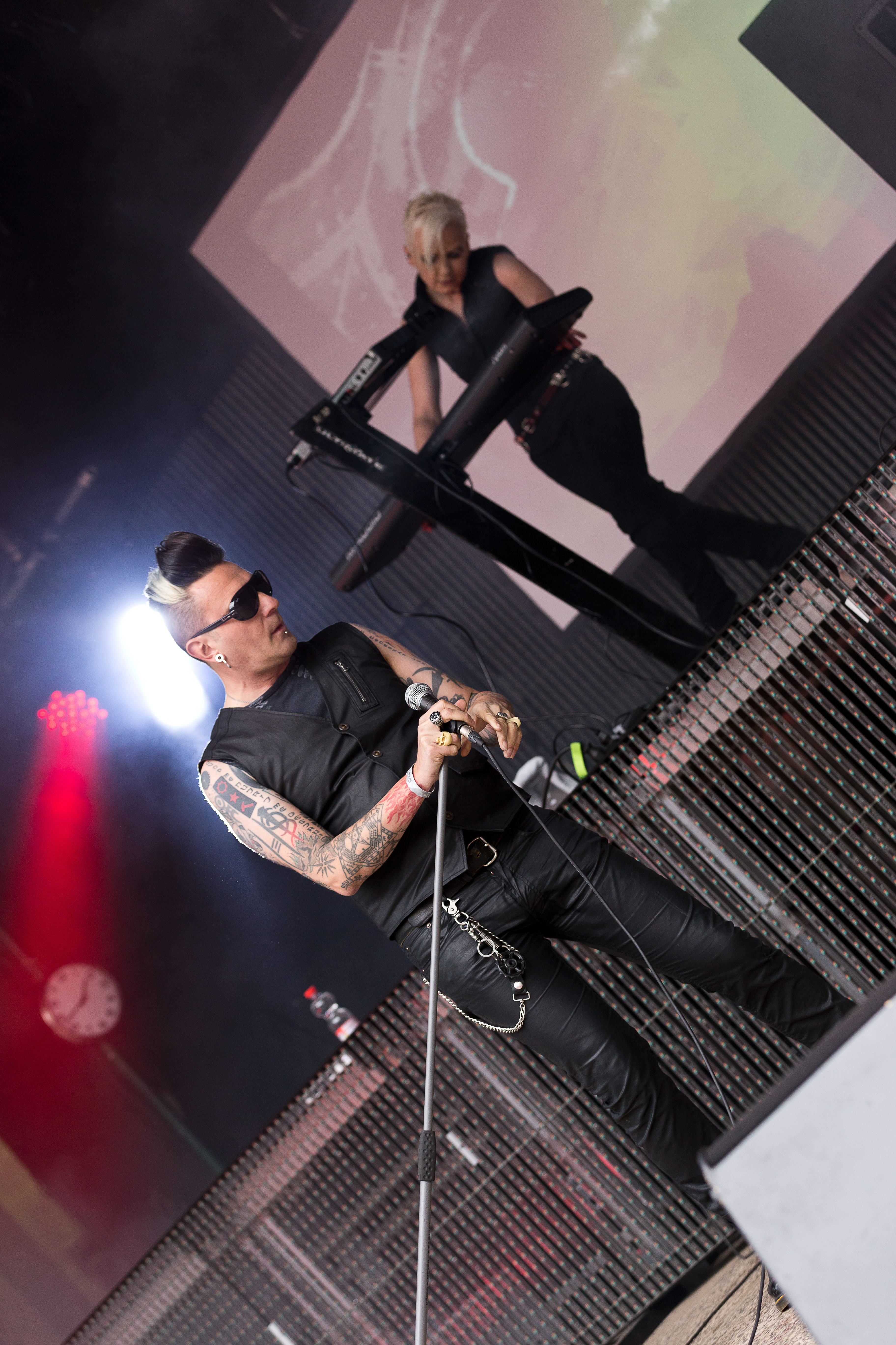 The Canadian electro band Decoded Feedback at the Nocturnal Culture Night 10 2015 in Deutzen/Germany.